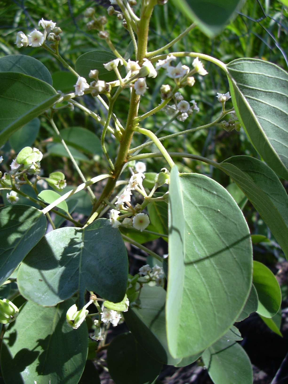 Gouania hillebrandii (flowers). Location: Maui, Puu o Kali